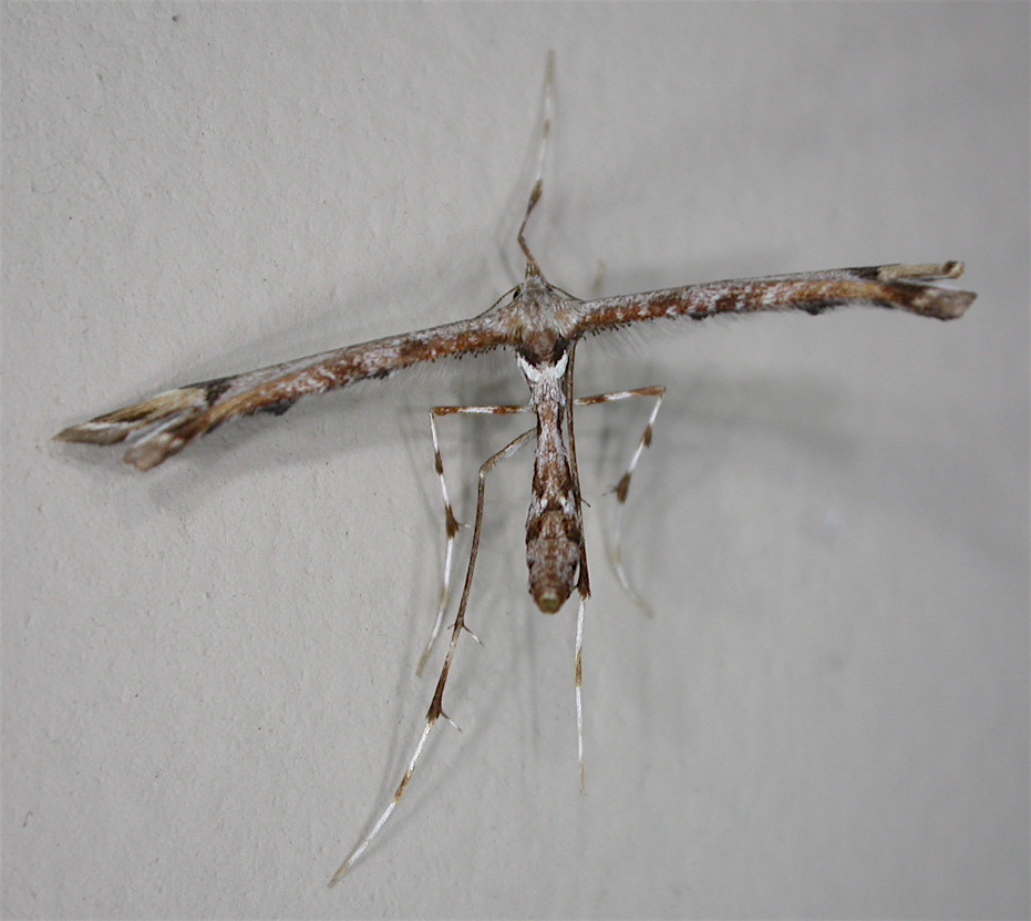 Platyptilia falcatalis, Meadow Street, Papanui, New Zealand, 13 October 2004